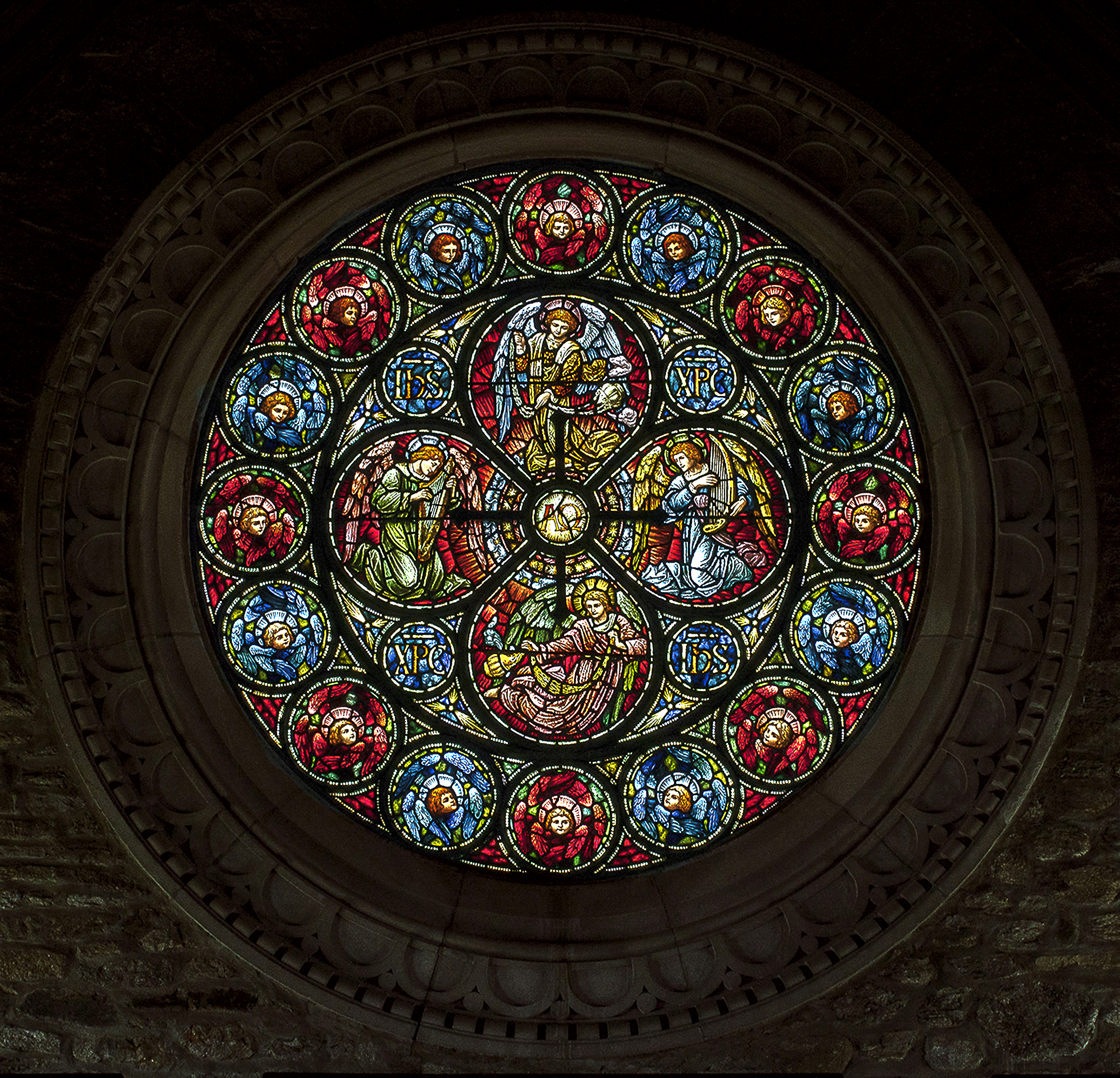 The 13th century rose window from St. Julien Cathedral, France, installed in Clark Memorial Chapel, Pomfret Schoo, Pomfret, Connecticut, USA